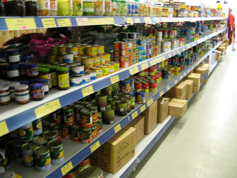 In the asia supermarkt ("Asialaden") in Germany. See also: Image:Asia_Markt_in_Germany_2.jpg